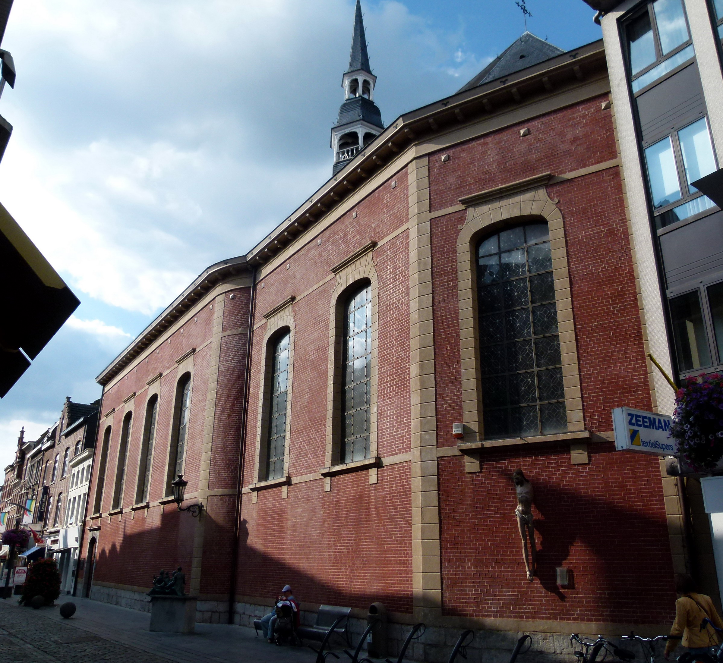 Maaseik, Belgium. View from the Southeast of the church of Saint James on Bosstraat, also known as the church of the Order of the Crosiers.